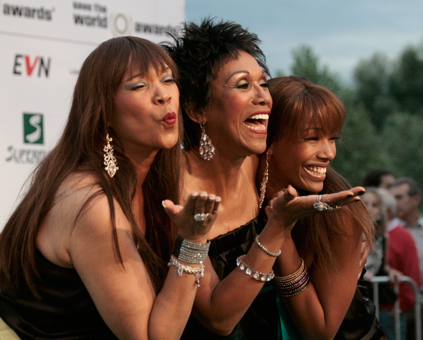 The Pointer Sisters at the "green carpet" for the Save the World Awards 2009 (Zwentendorf Nuclear Power Plant, Lower Austria).